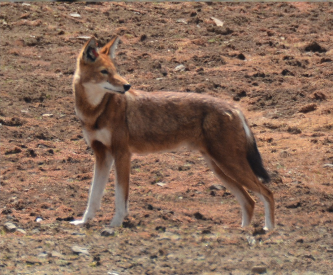 Ethiopian wolf, Bale Mountains National Park.